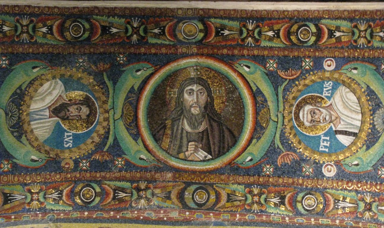 Mosaic in basilica of San Vitale in Ravenna (on the intrados of choir arch).